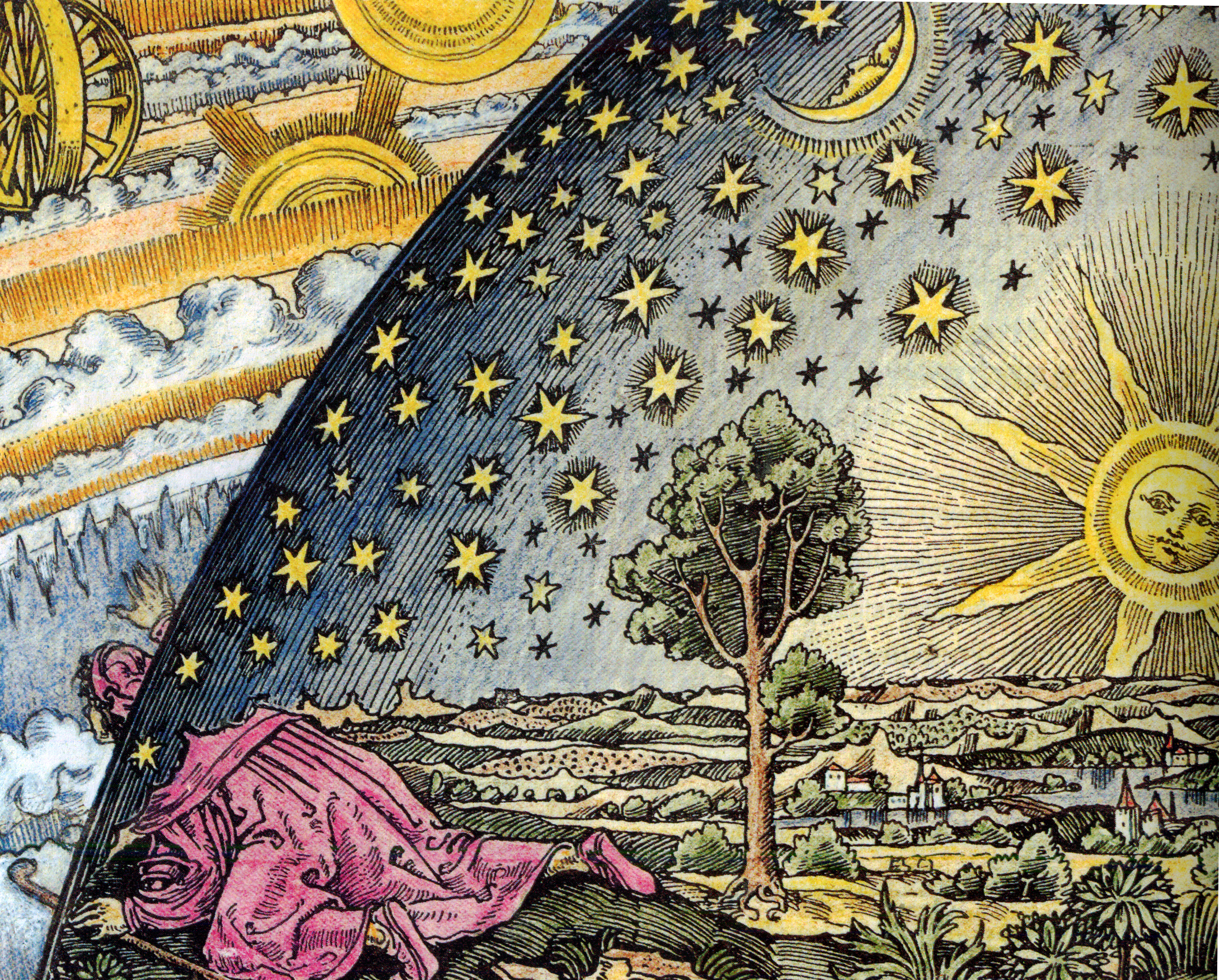 Colorized version of Flammarion Woodcut